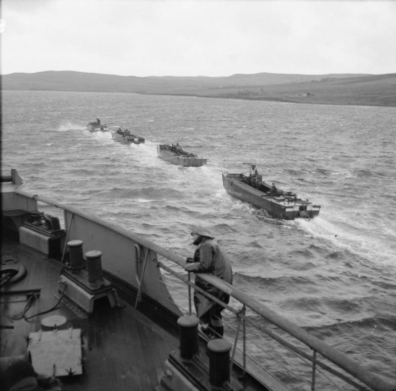 Raid on Vaagso, 27 December 1941 Infantry landing craft head for the shore.